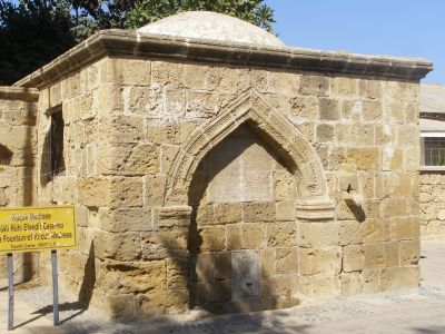 The fountain of the Kucuk Medrese in Nicosia, Cyprus - northern (Turkish) part